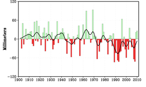 Winter precipitation trends in the Mediterranean region for the period 1902 - 2010.